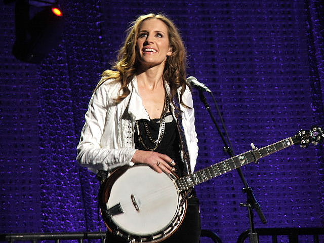 Emily Robison of the Dixie Chicks in Austin, TX. Photo - Ron Baker.